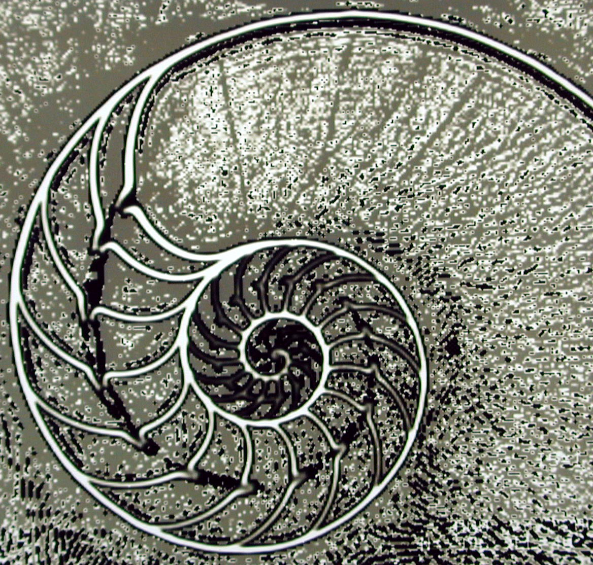 CT-Imaging of seashells : Nautile